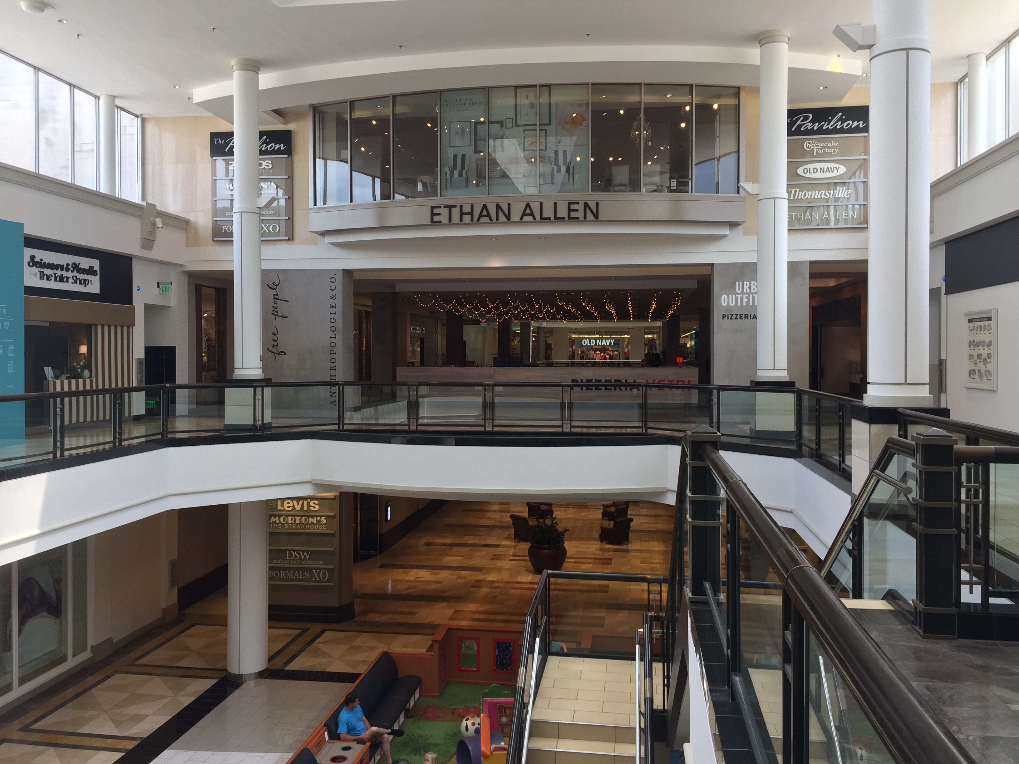 The Pavilion